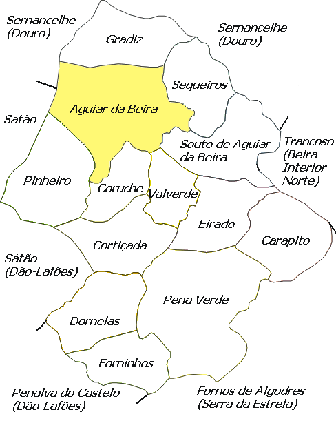 Map of Aguiar da Beira parish in Portugal. Author: Kullanıcı:Mskyrider.